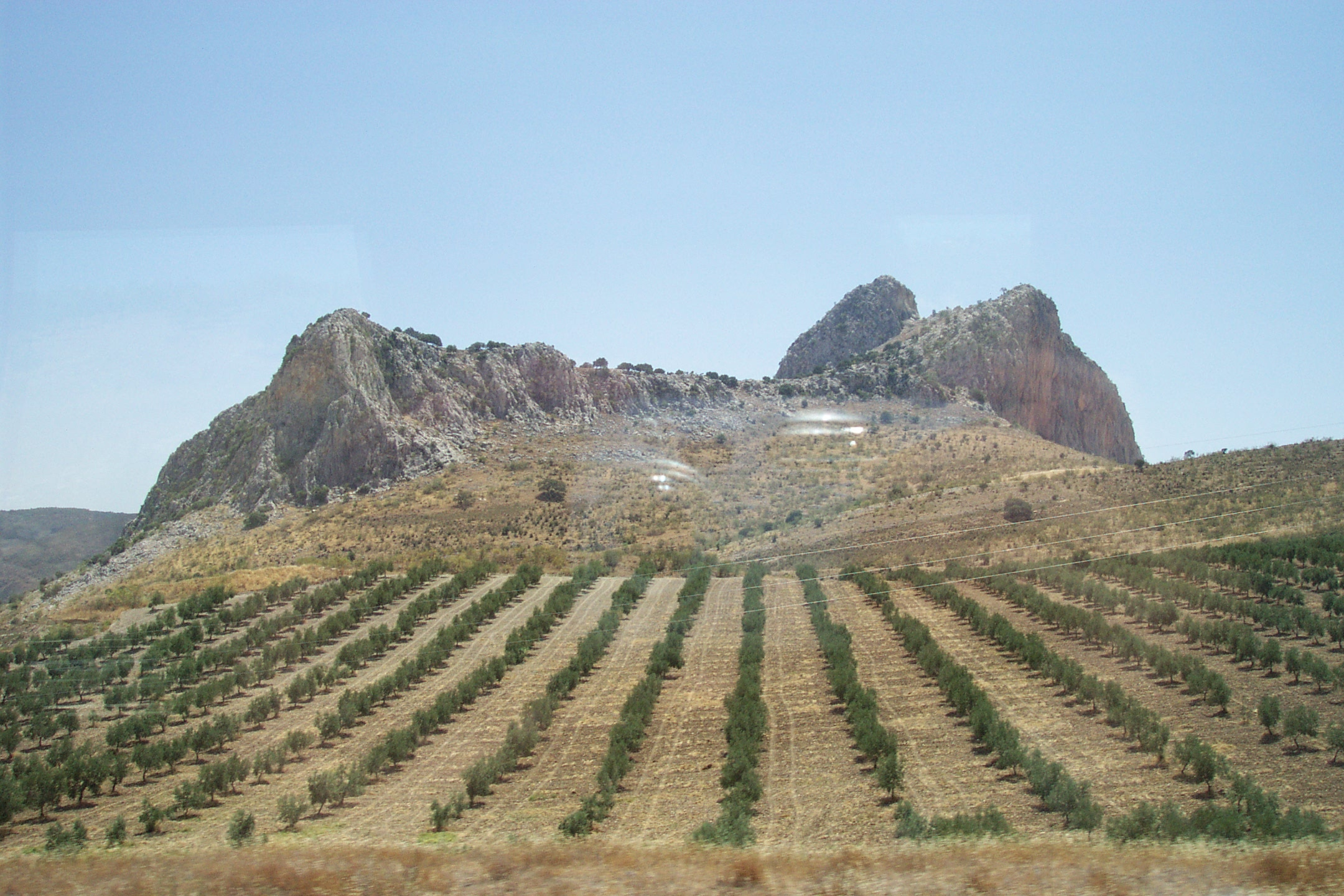 Peña de los enamorados, comarca de Antequera, Andalucia, Spain.